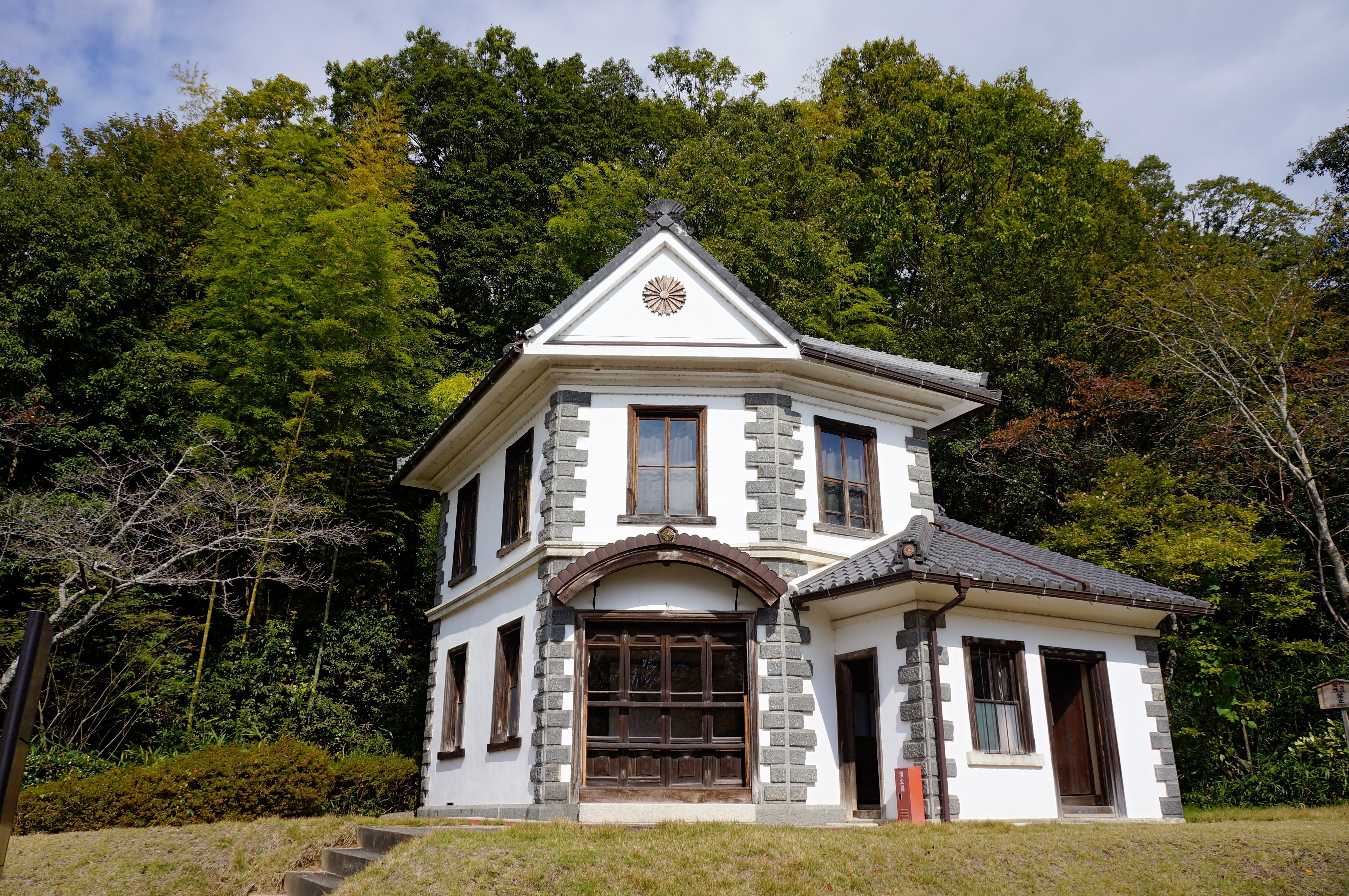 Old Azuchi police station of Shiga Prefectural Azuchi Castle Archeological Museum in Azuchi, Omihachiman, Shiga prefecture, Japan